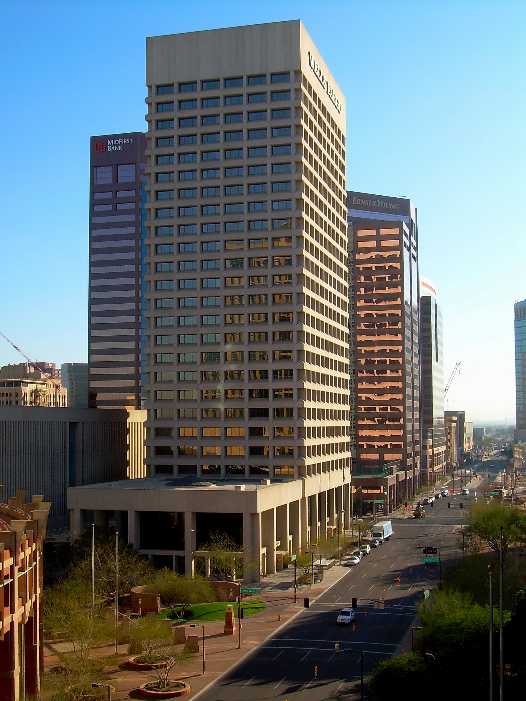 The Wells Fargo Plaza, which houses the headquarters of the Maricopa County Sheriff's Office